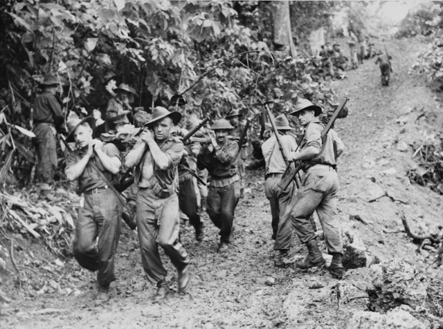 Australian soldiers from the 29th/46th Battalion carrying a wounded man on a stretcher following combat operations against the Japanese around Gusika, New Guinea, November 1943.